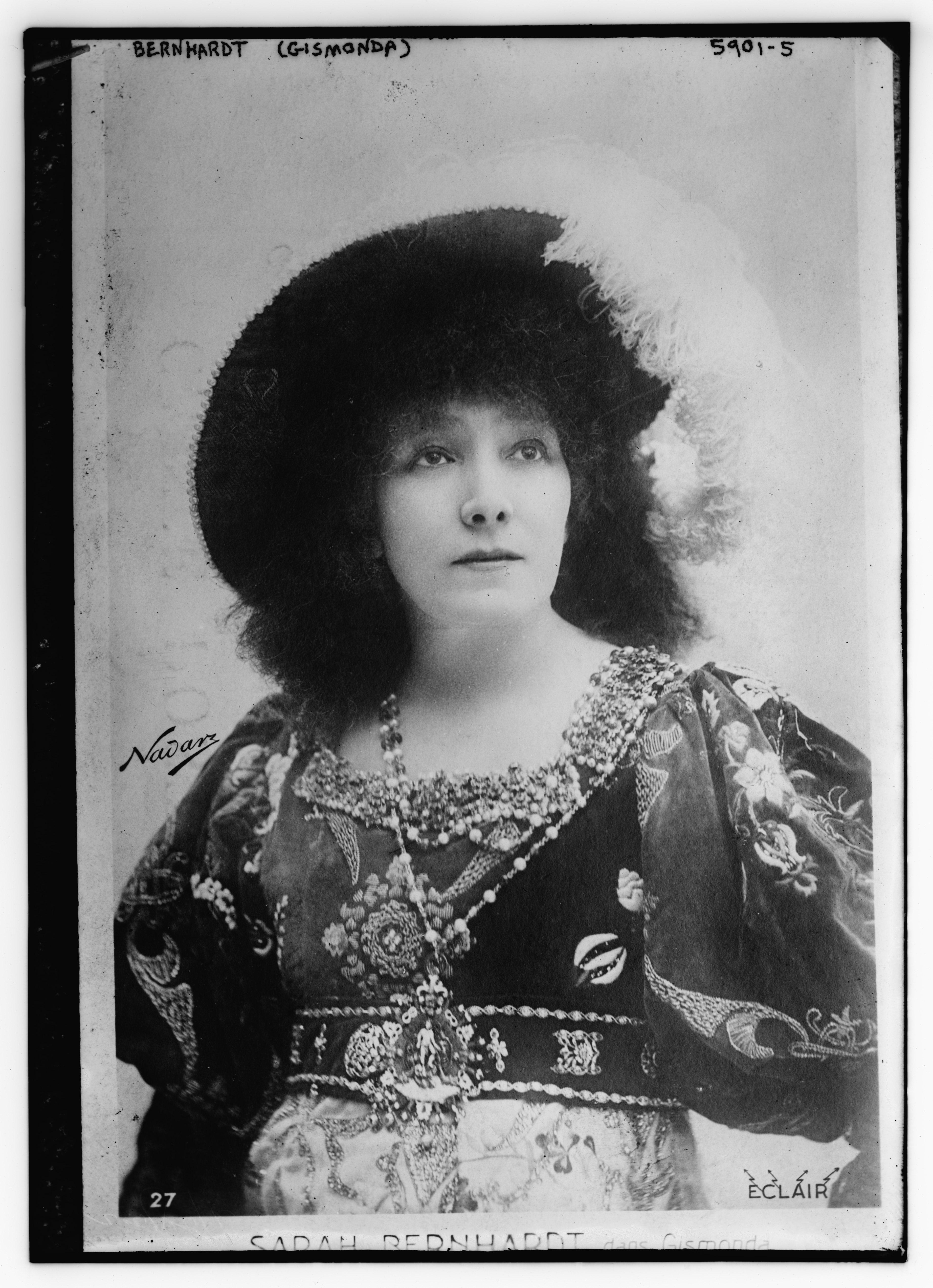 Title: Bernhardt (Gismonda) Abstract/medium: 1 negative : glass ; 5 x 7 in. or smaller.